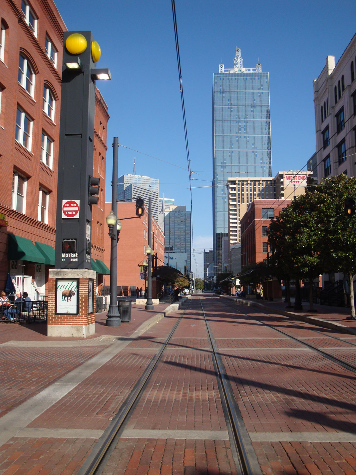 Dallas, West End Station, in the background: Renaissance Tower